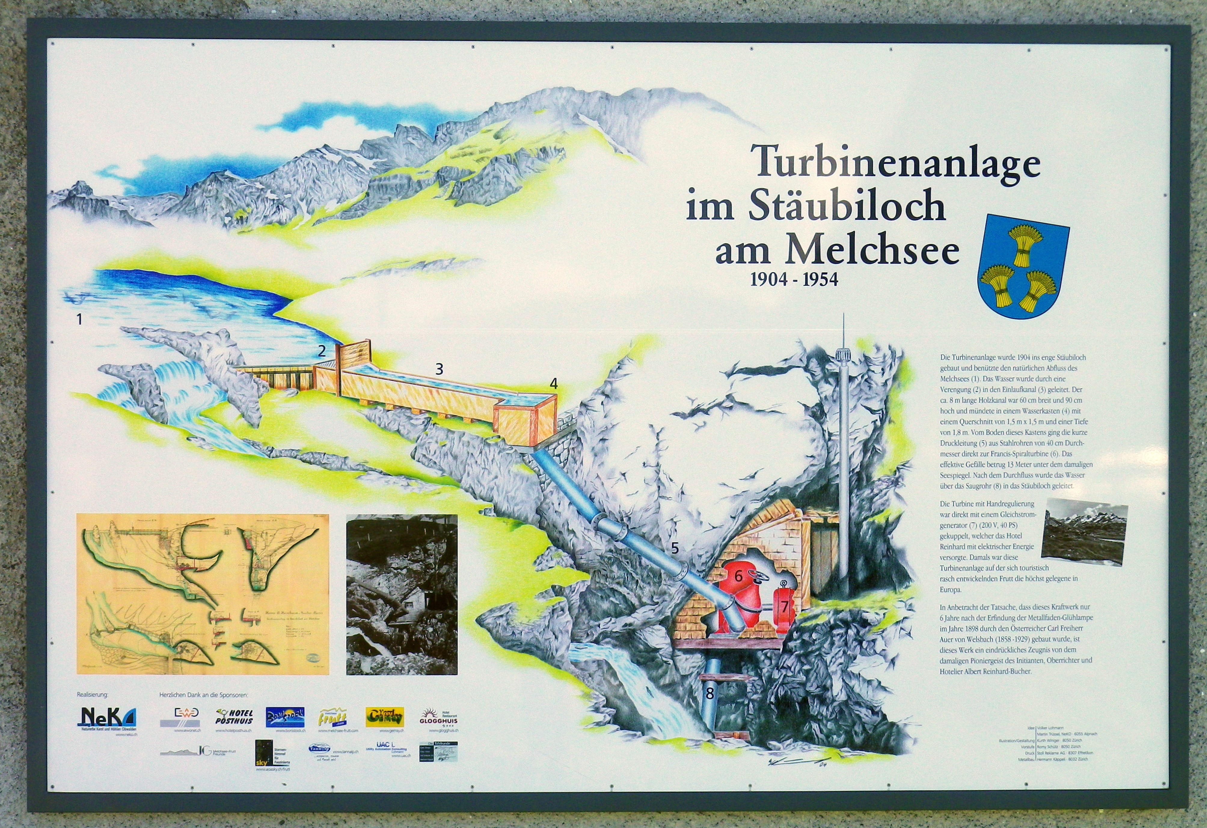 information plate at the Stäubiloch in Melchsee-Frutt, Switzerland